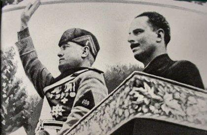 This file contains a photograph of British Union of Fascists leader Oswald Moseley and Italian Fascist leader and Italian Prime Minister Benito Mussolini.